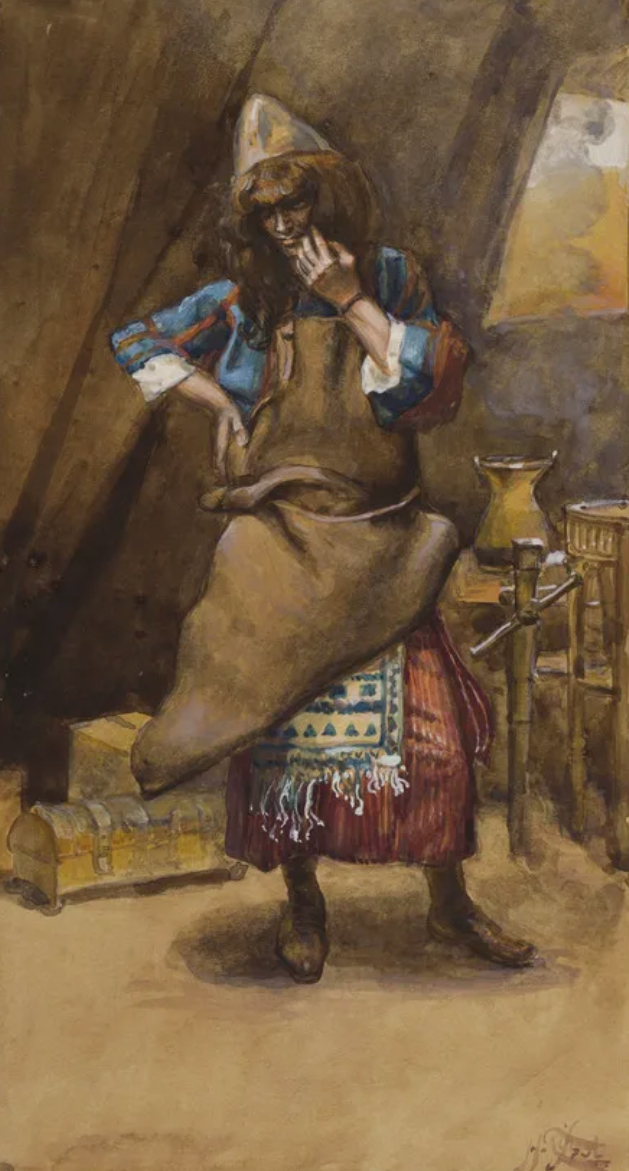 Bezalel, as in Exodus 31, watercolor circa 1896–1902 by James Tissot